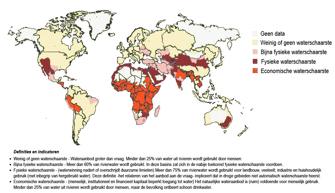 World map indicating areas of physical and economic water scarcity, based on data from UNESCO in 2012.